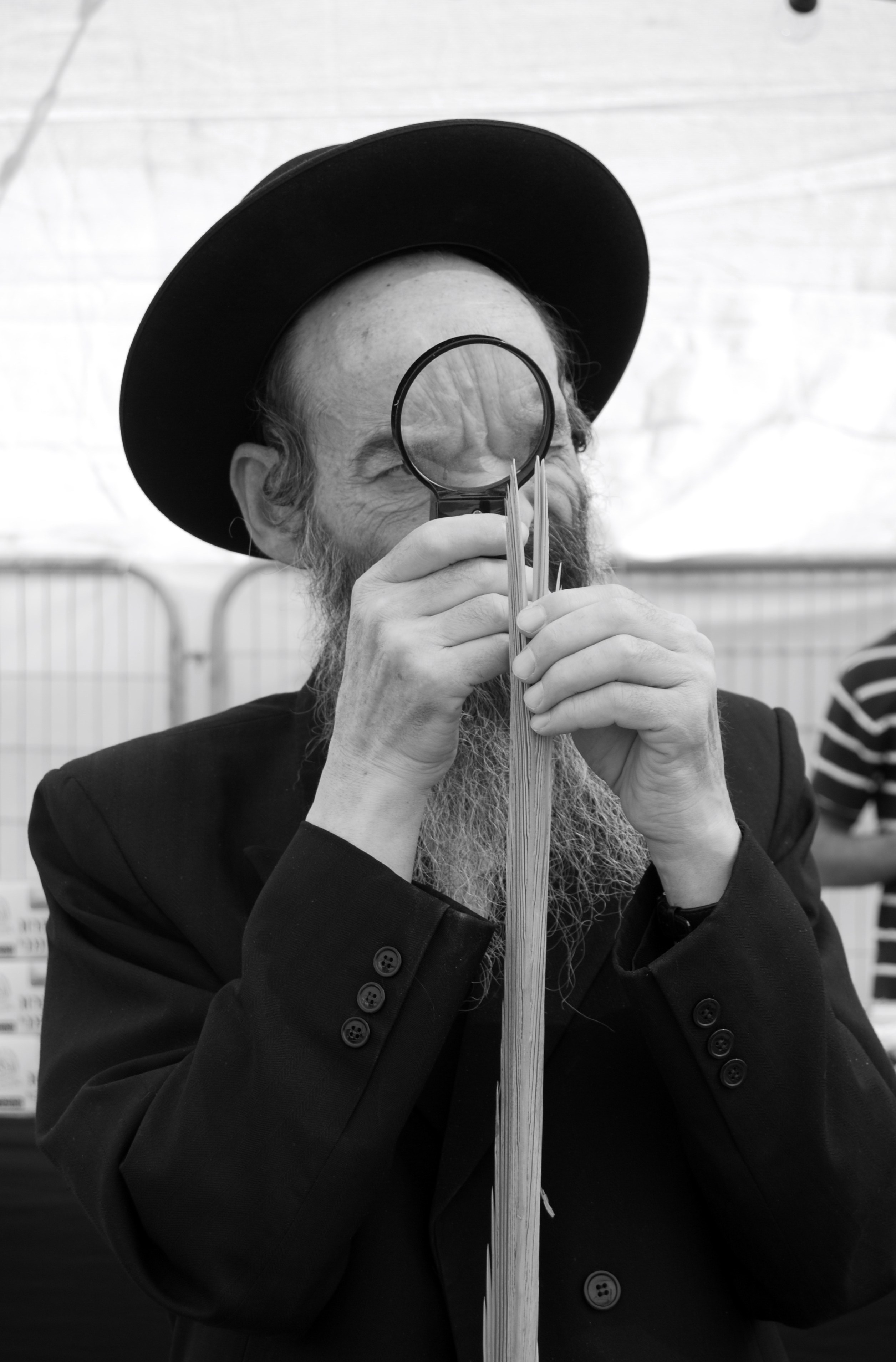 Sukkot, Jewish holidays